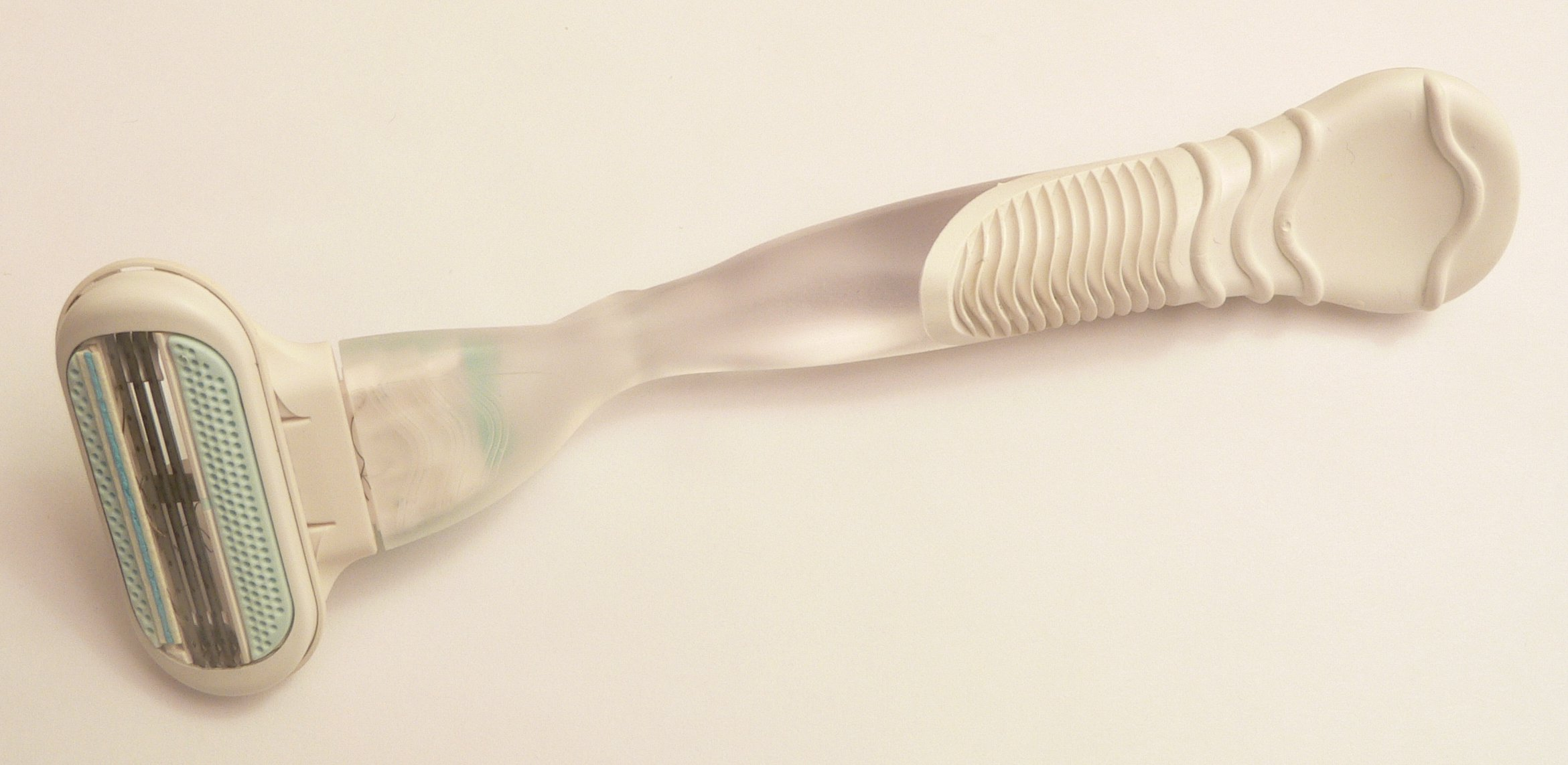 A female razor